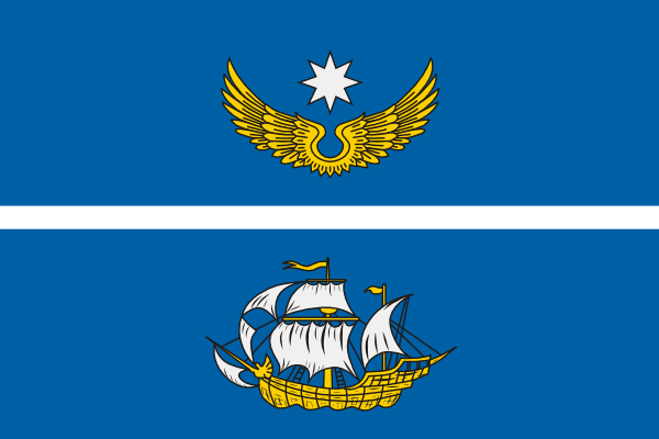 North district in Moscow, flag